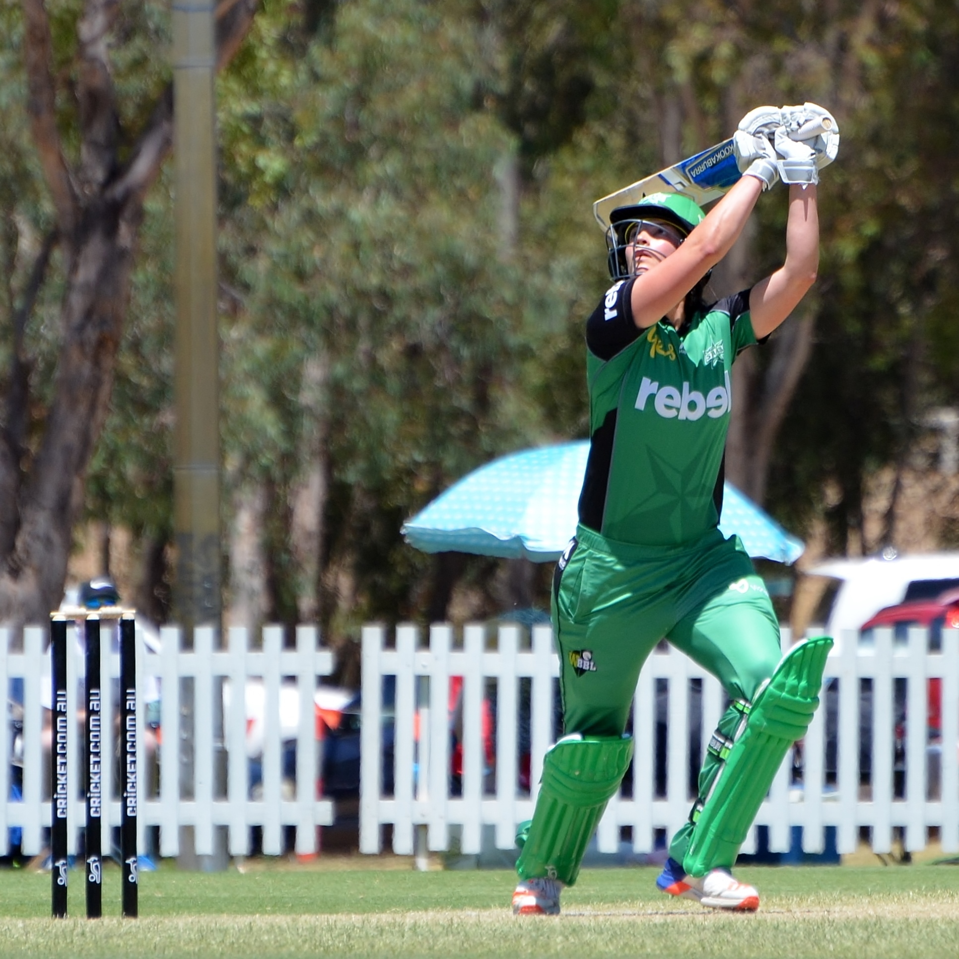 Emma Inglis is about to be c Graham b Shrubsole after scoring 4 for Melbourne Stars (WBBL) against Perth Scorchers (WBBL) at Lilac Hill Park, Perth, Australia.